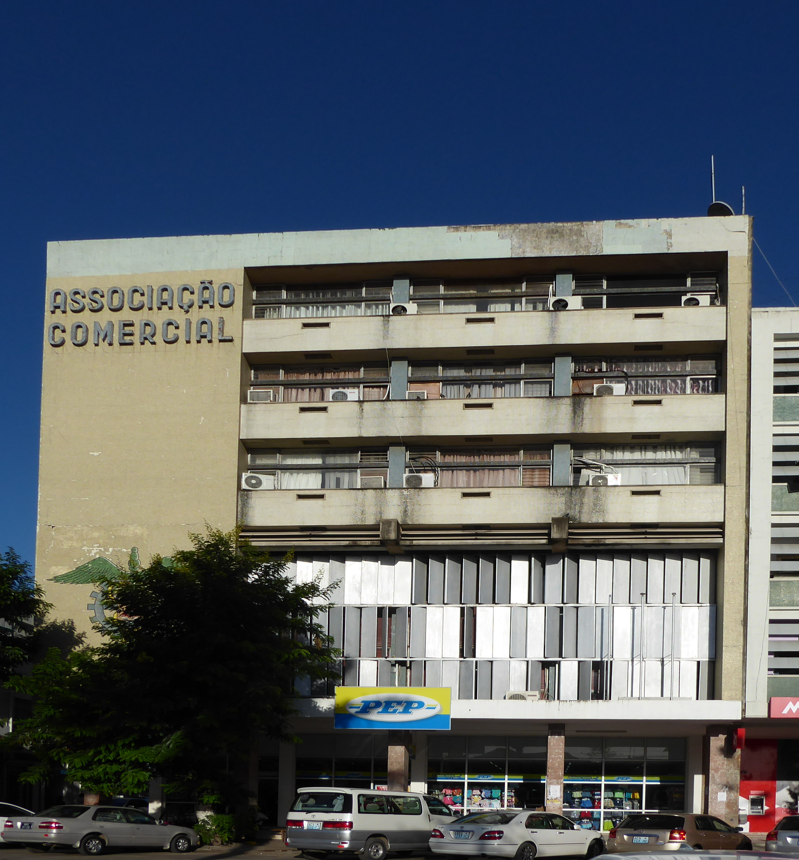 Building of the Trade Chamber (Associação Comercial) of Beira, Mozambique